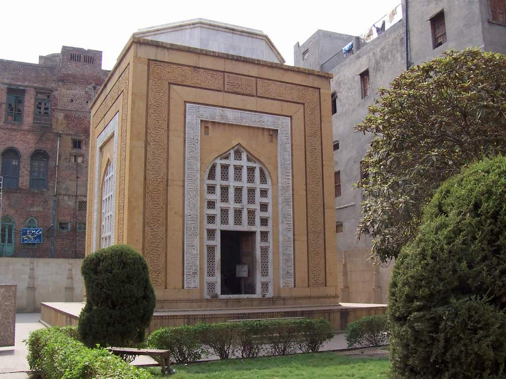 Mausoleum of Sultan Qutb-ud-Din Aibak (Died Lahore 1210 AD),located at Aibak Road, Inside Anarkali, Lahore. Pakistan.